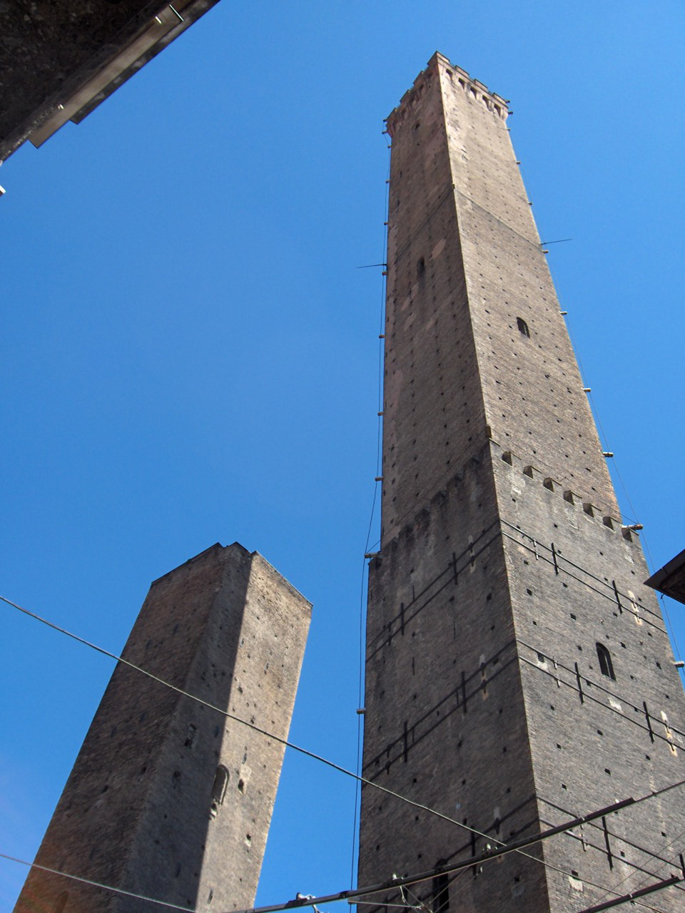 The two towers in Bologna, Italy (panoramic view)